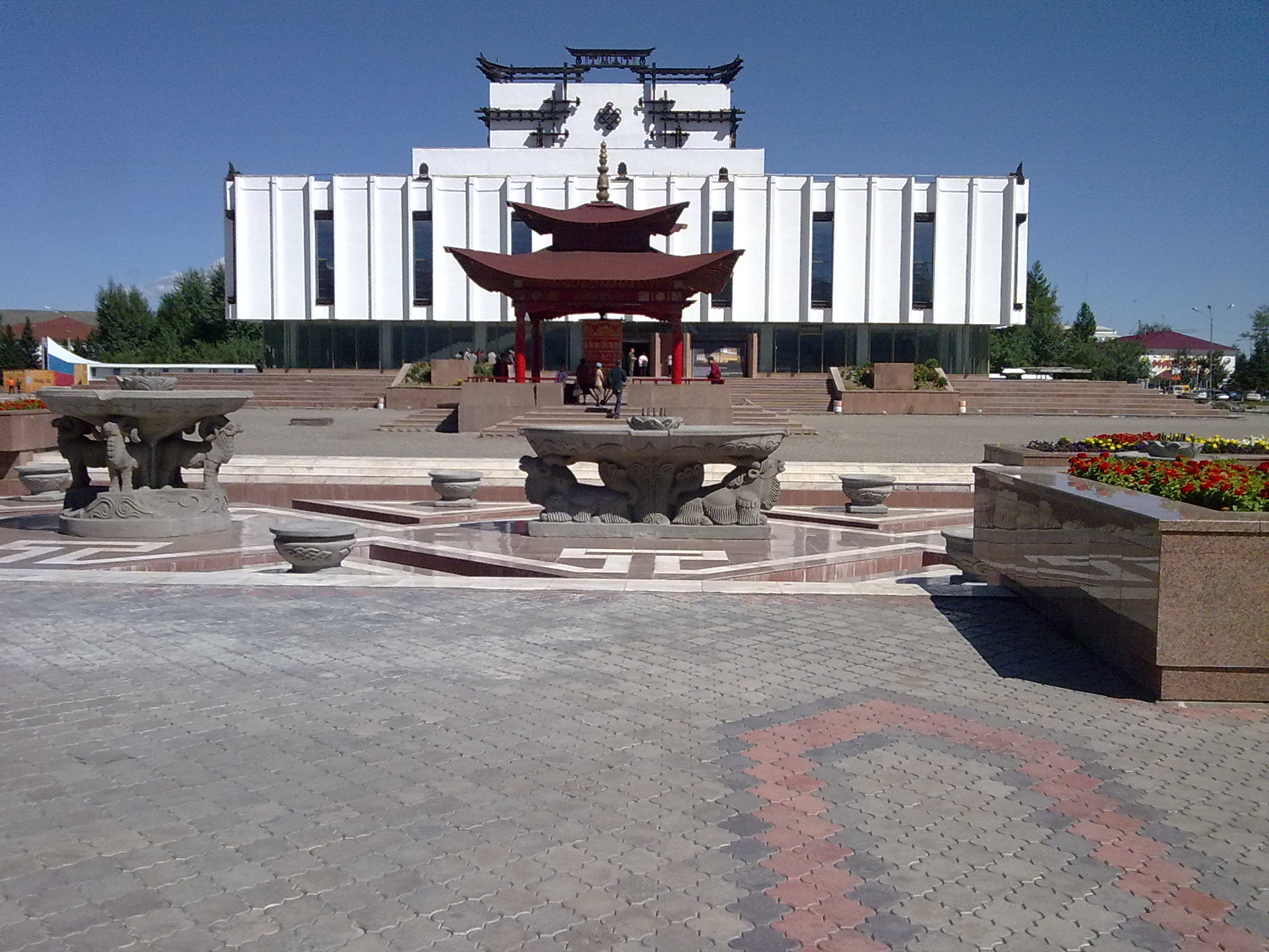 Kyzyl, the area Arata: Musical Drama Theatre and a Buddhist prayer wheel